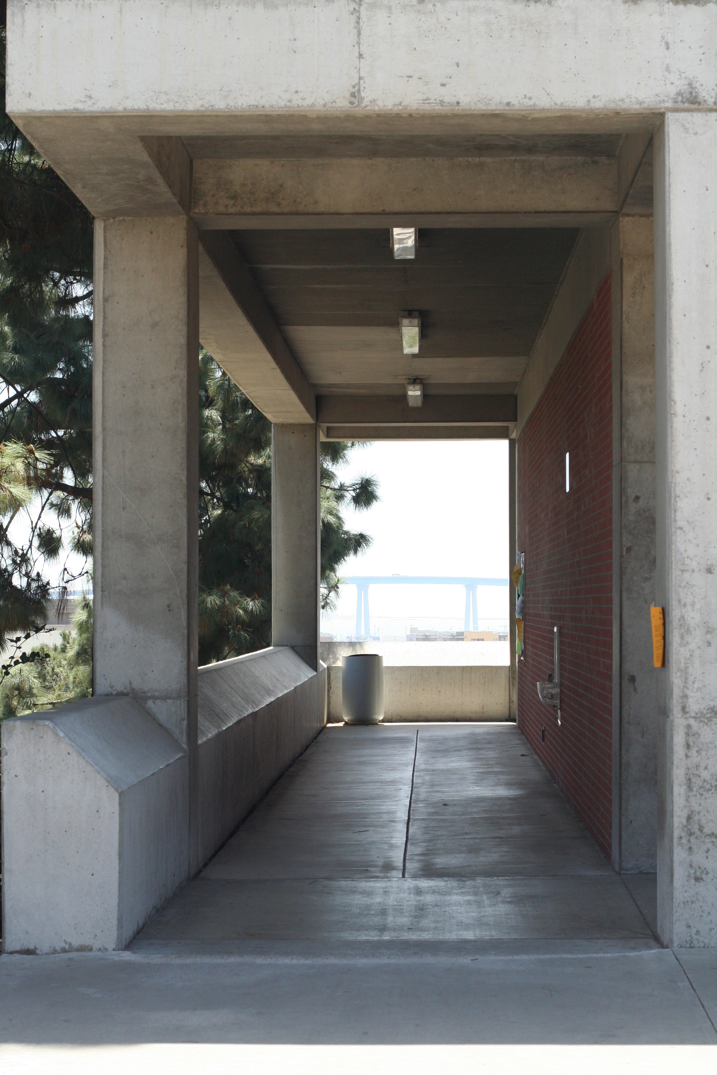 Photo of San Diego City College - with San Diego-Coronado Bridge in the background